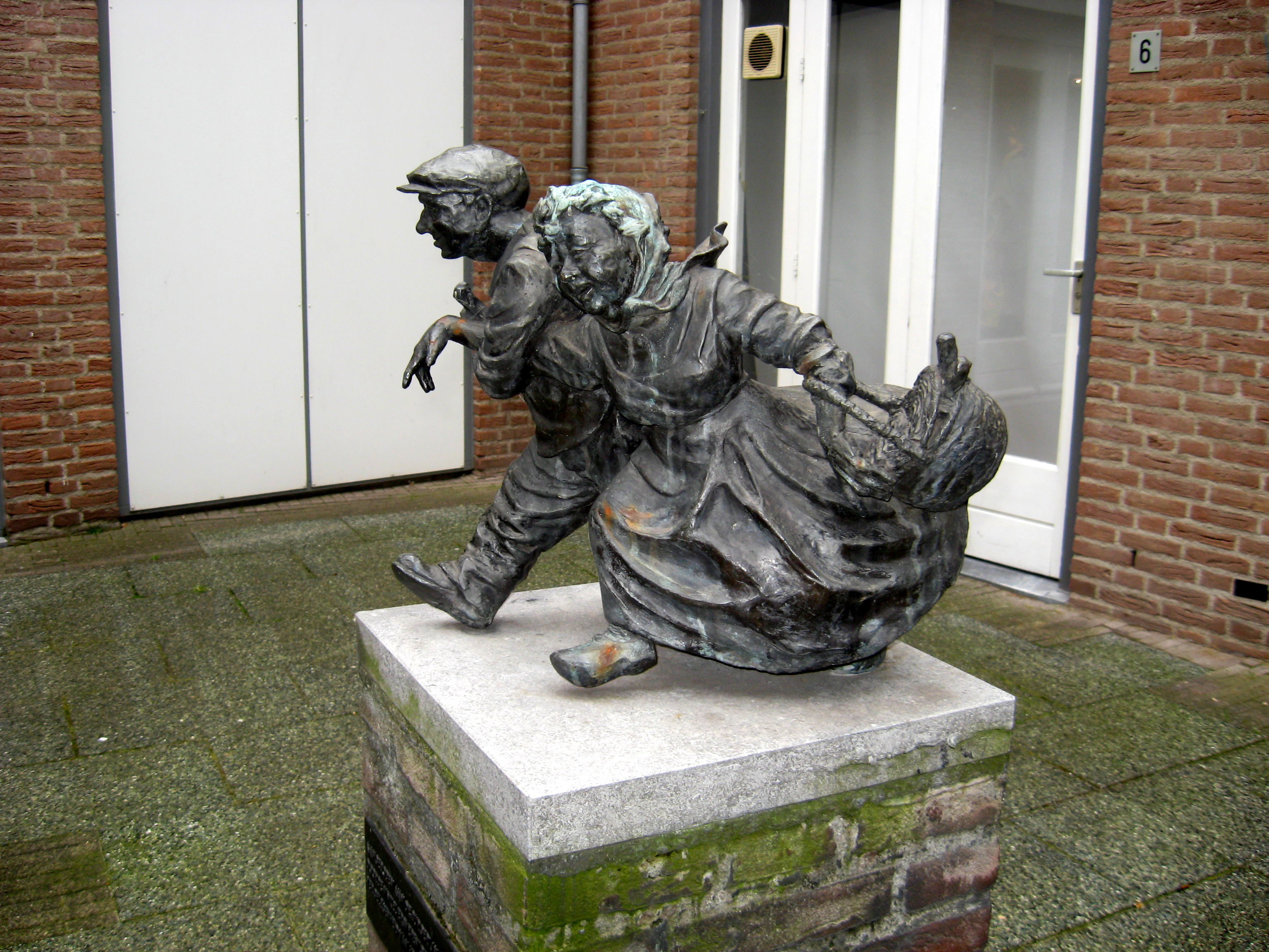 Dat gaat naar Den Bosch toe, Going to Town